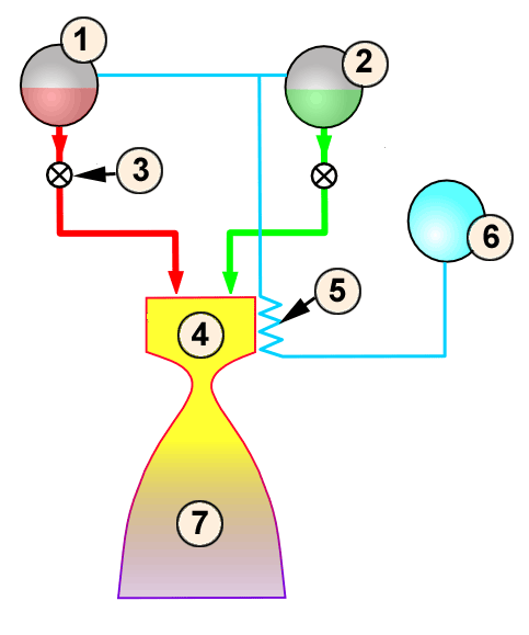 Staged combustion rocket cycle drawing with numeric labels